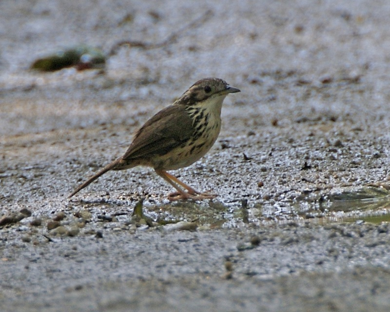 Puff-throated Babbler Pellorneum ruficeps probable race: mandelli Kazaringa, Assam, India April 15, 2008 Seen on the dirt road after rain, just about to take a bath